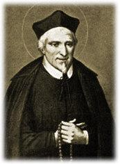 Portait of Sebastian Valfrè (1629-1710), Catholic priest and a member of the Oratory of Saint Philip Neri.